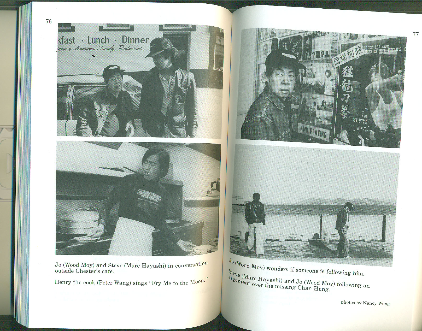 Chan is Missing still photos by Nancy Wong, 1981.